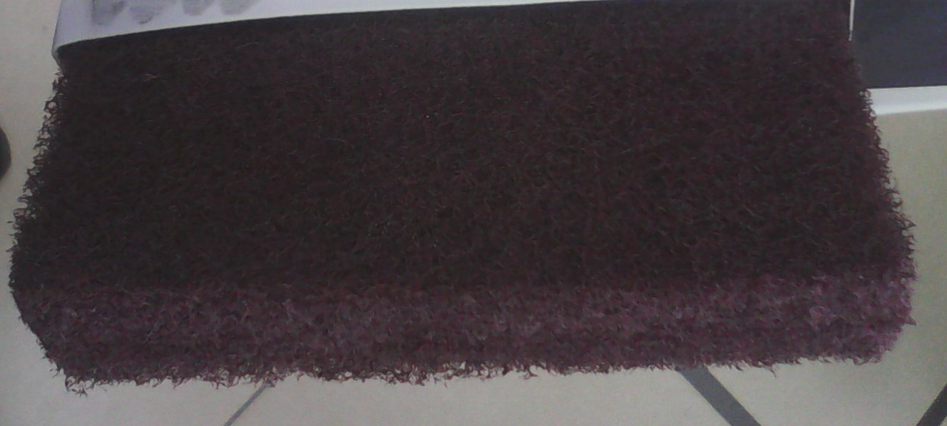 Abrasive sponge (scotch brite)